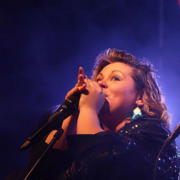 Linda Valori - Blues concert in Swiss 2013